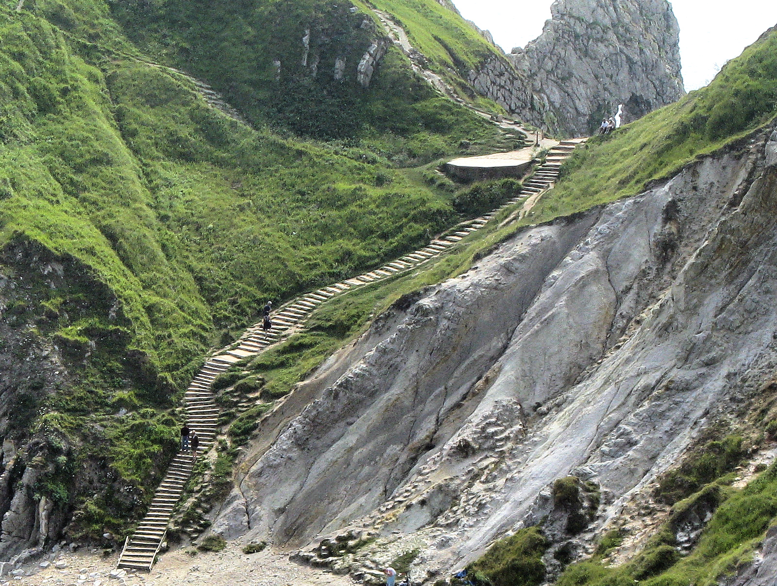 Steps down to Man O’War Cove, Dorset, England, from the cliffs above. This cove is a few miles west of the better known Lulworth Cove. Durdle Door rock arch can be seen at the top of the steps.